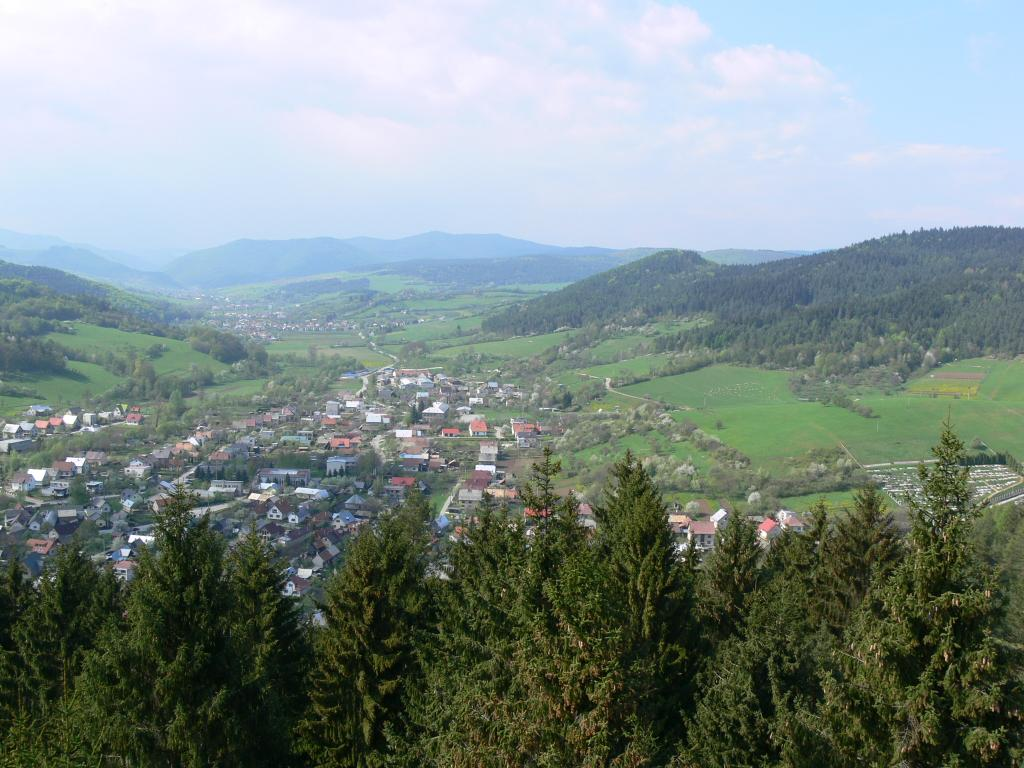 Slovak village Udica